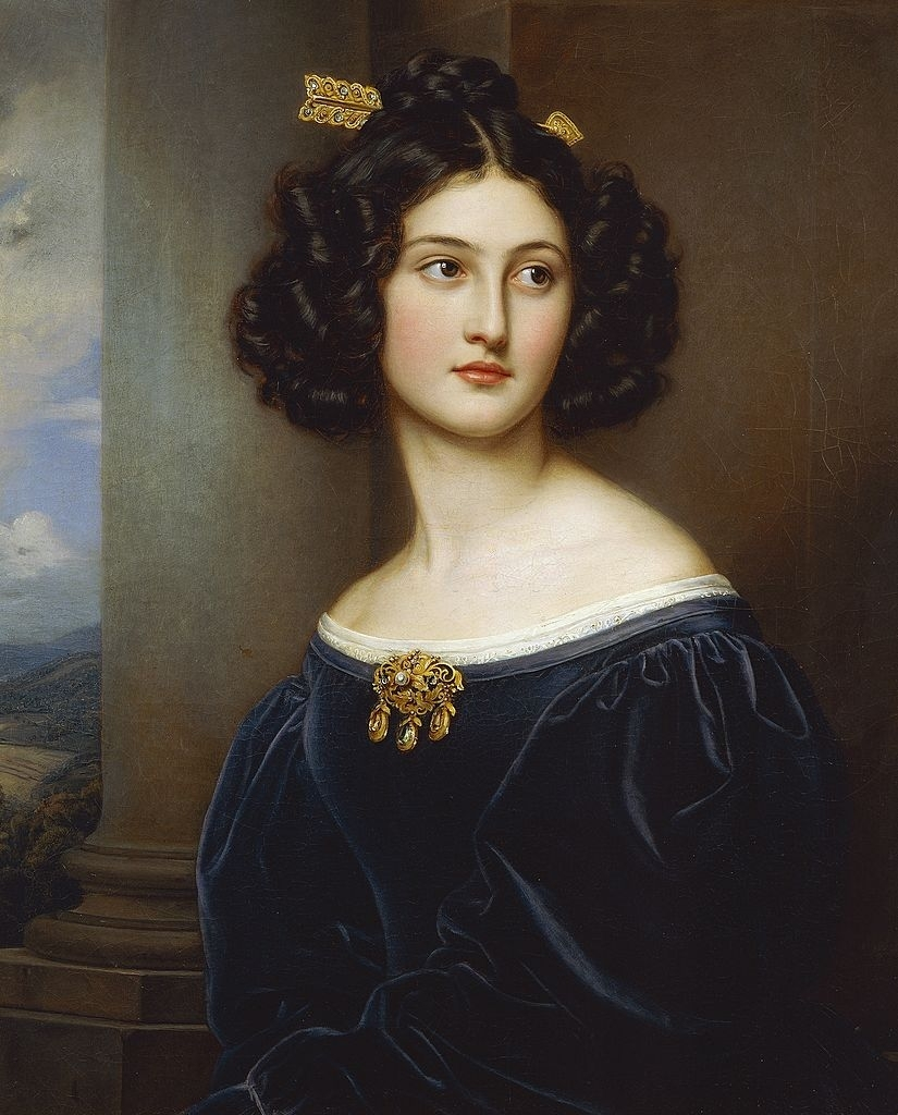 daughter of Banker / Hoffaktor Raphael Kaulla, painted in 1829 for the Schönheitengalerie